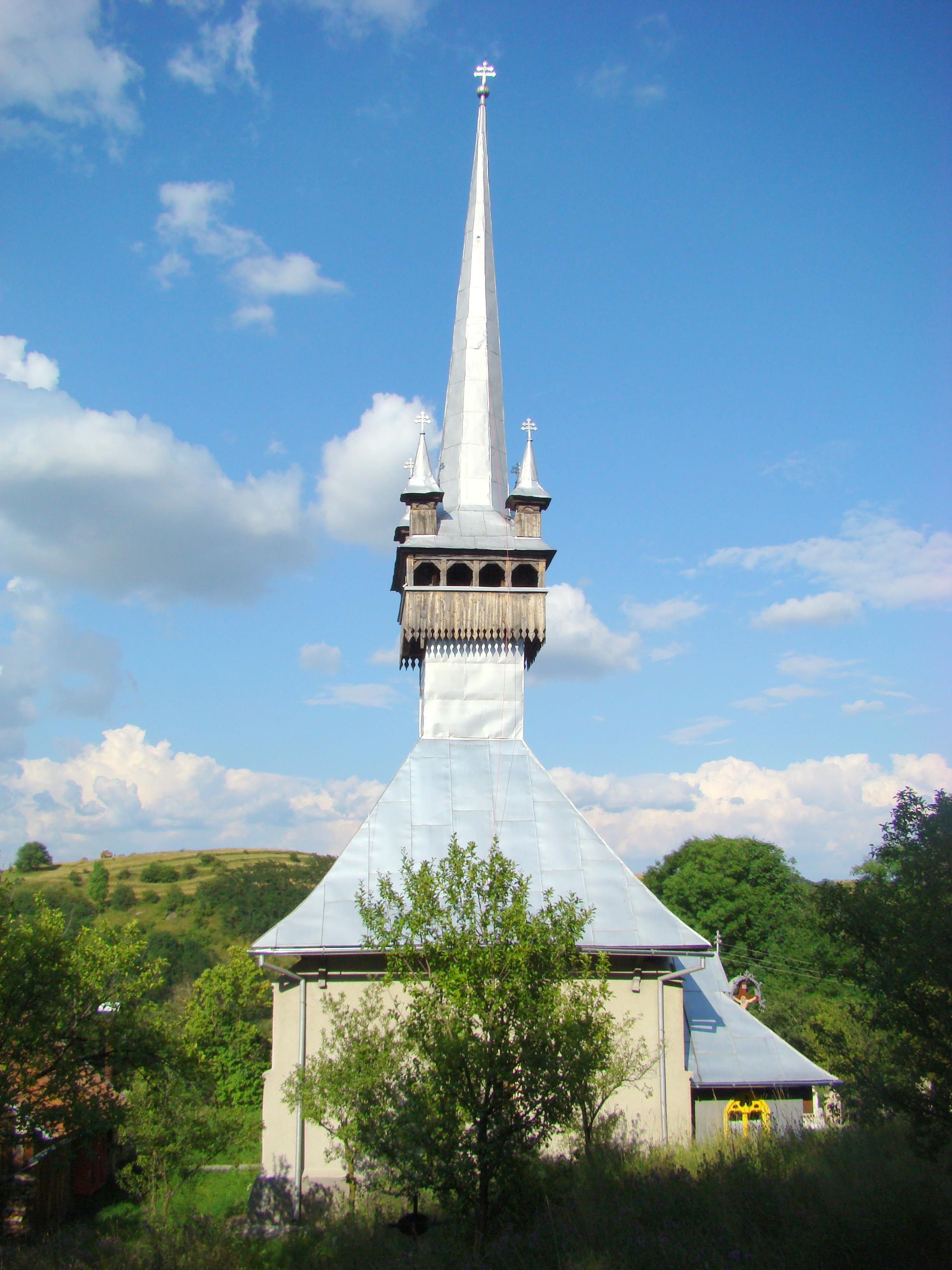 The church of the Holy Ascension of God in Bedeciu, Cluj county, Romania